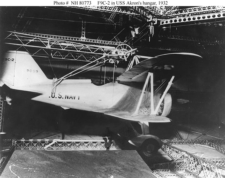 A Curtiss F9C-2 Sparrowhawk inside USS Akron (ZRS-4) hangar.